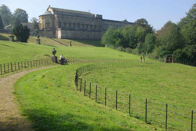 Prior Park